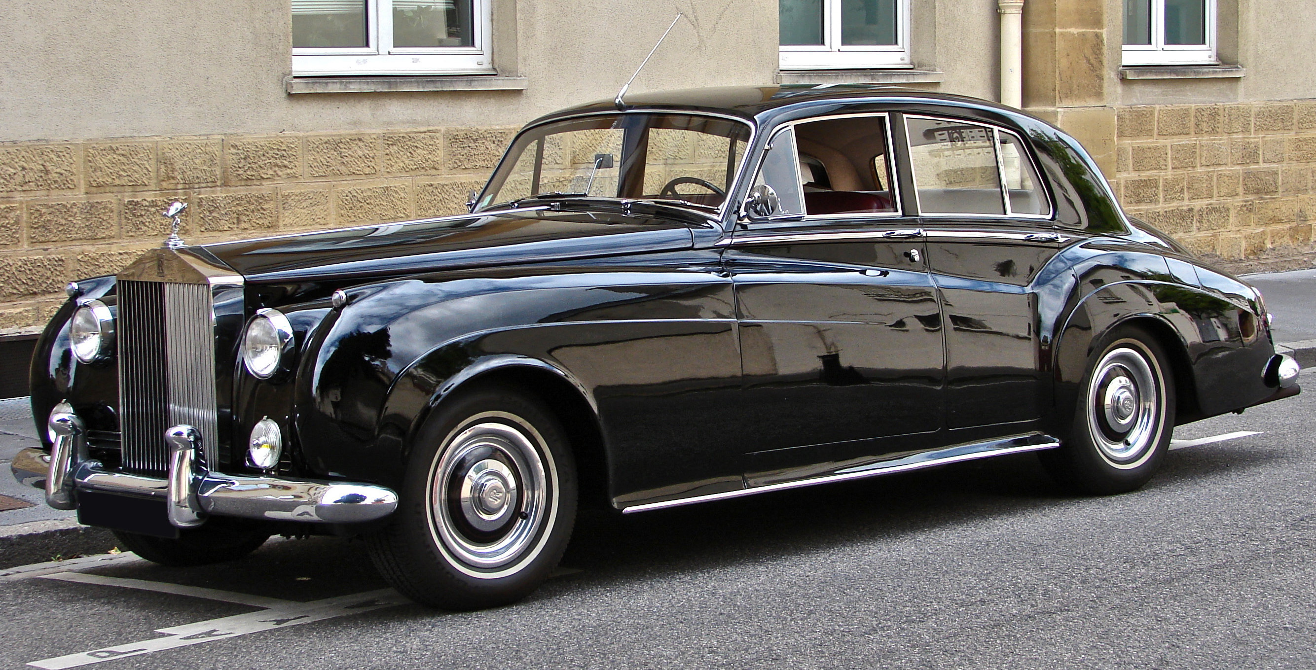 Rolls Royce Silver Cloud II